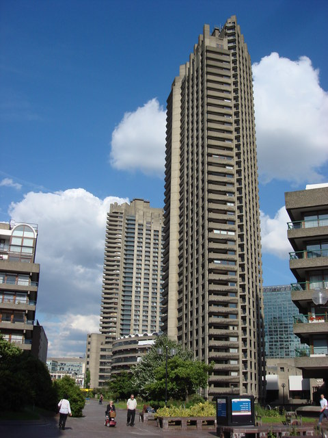 Shakespeare Tower Named after William Shakespeare and completed in 1976, Shakespeare Tower is one of three residential towers in the Barbican Estate. Shakespeare Tower is 42 storeys and 123 metres (404 ft) high.